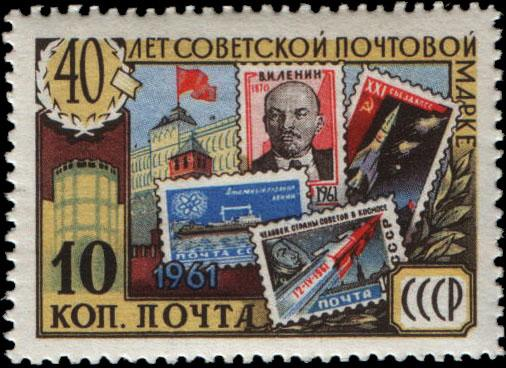 Stamp os USSRː Leninism is the banner of our victories. Issueː 40 years of Soviet postage stamps